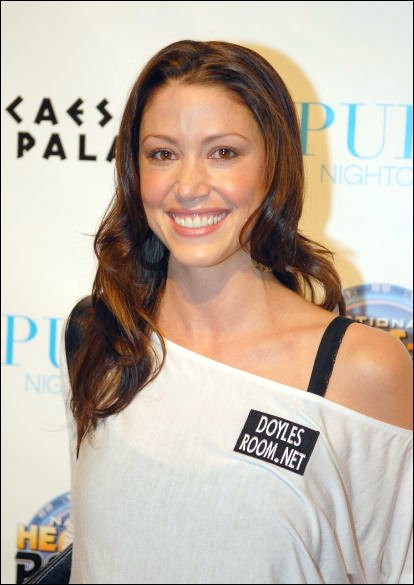 Shannon Elizabeth at the 2008 NBC National Heads-Up Poker Championship. (cropped)